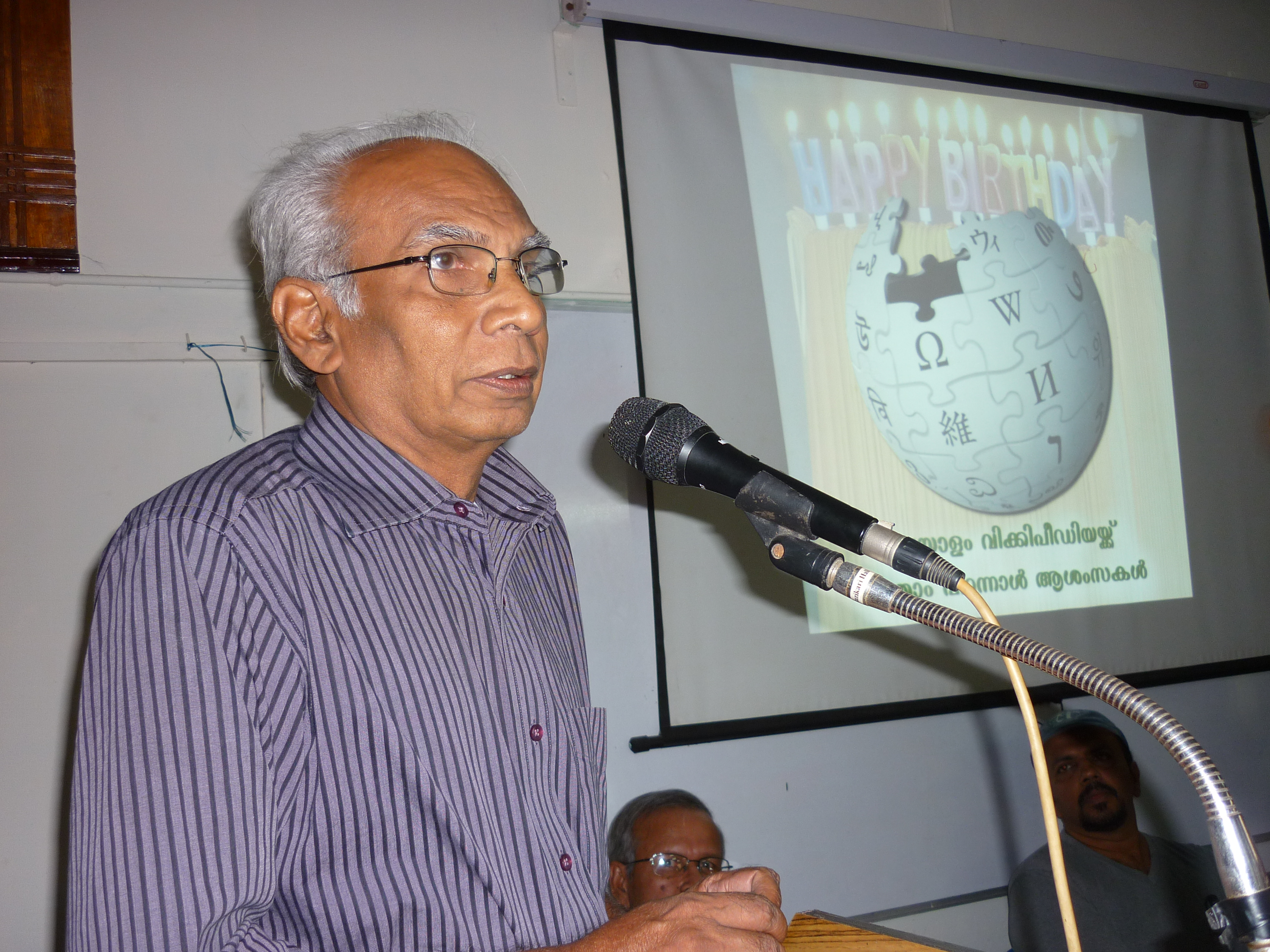 Senior Journalist in Malayalam